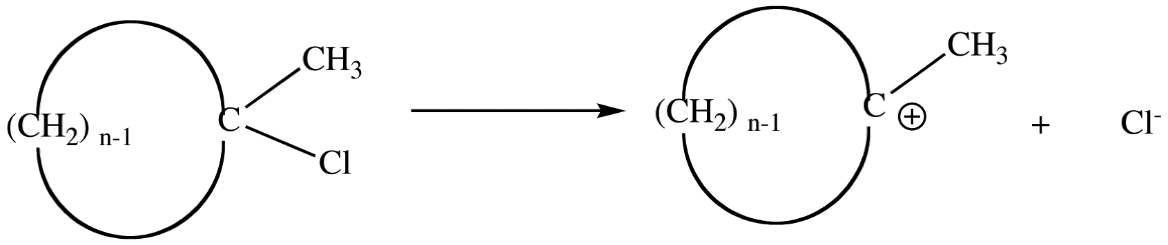 SN1 solvolysis reaction with acetic acid on various 1-chloro-1-methylcycloalkanes.